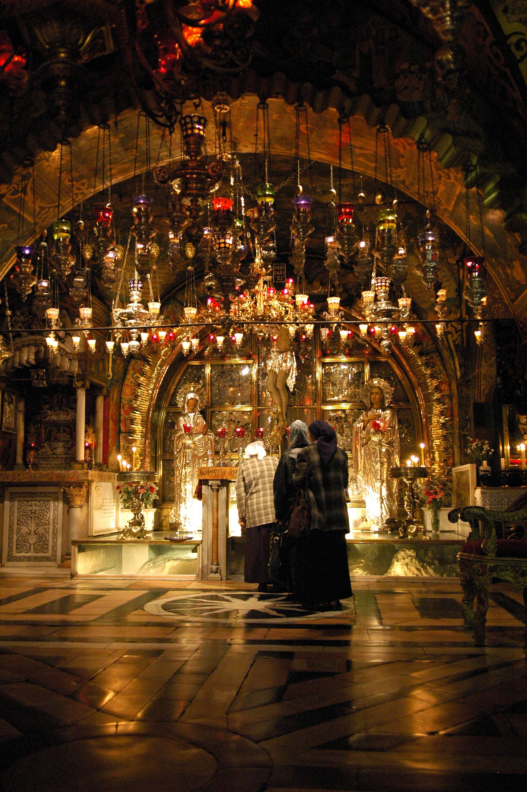 Church of the Holy Sepulchre. Golgotha (Calvary). Orthodox Crucifixion altar.